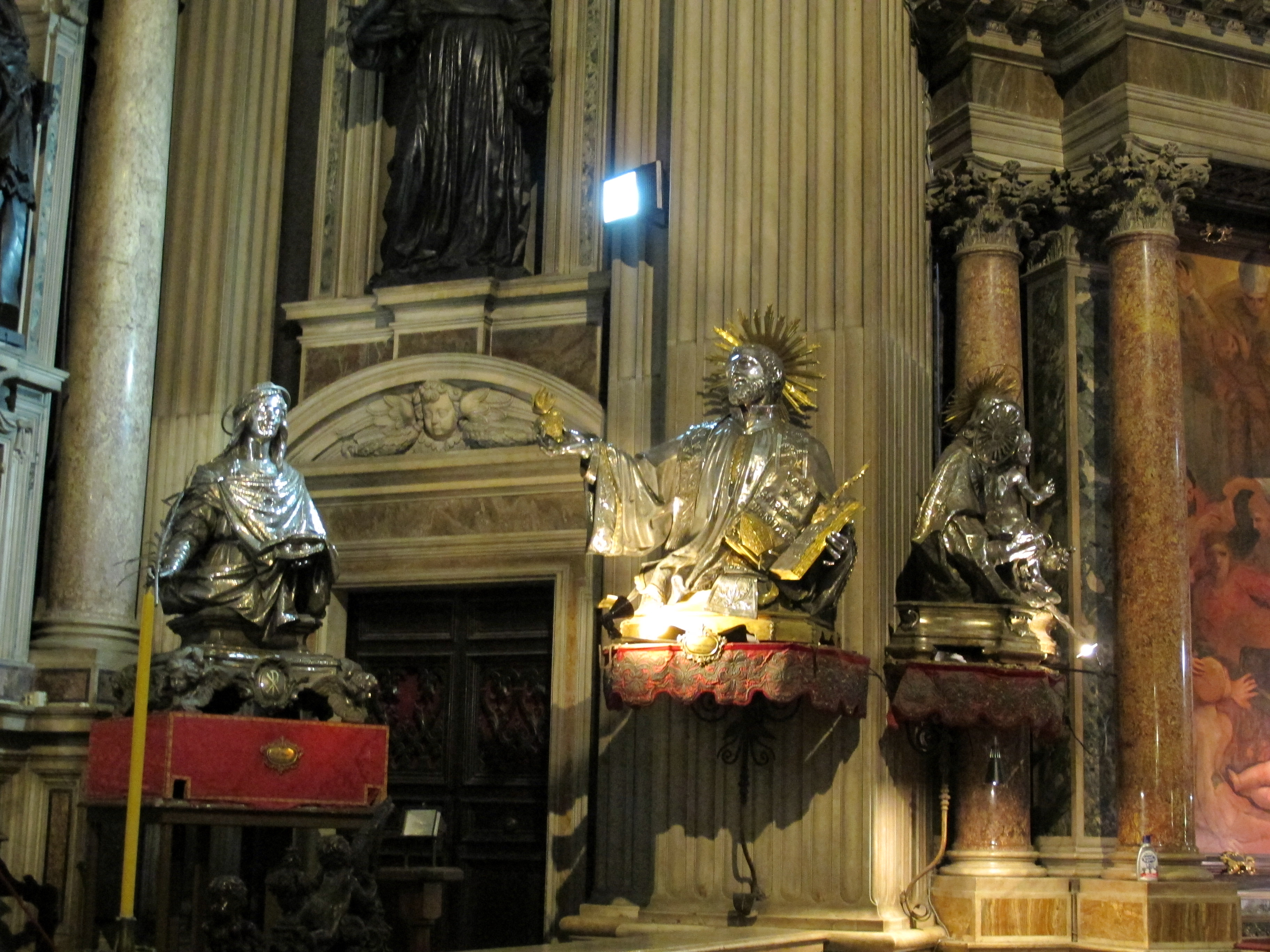 Cathedral (Naples) - Cappella di San Gennaro